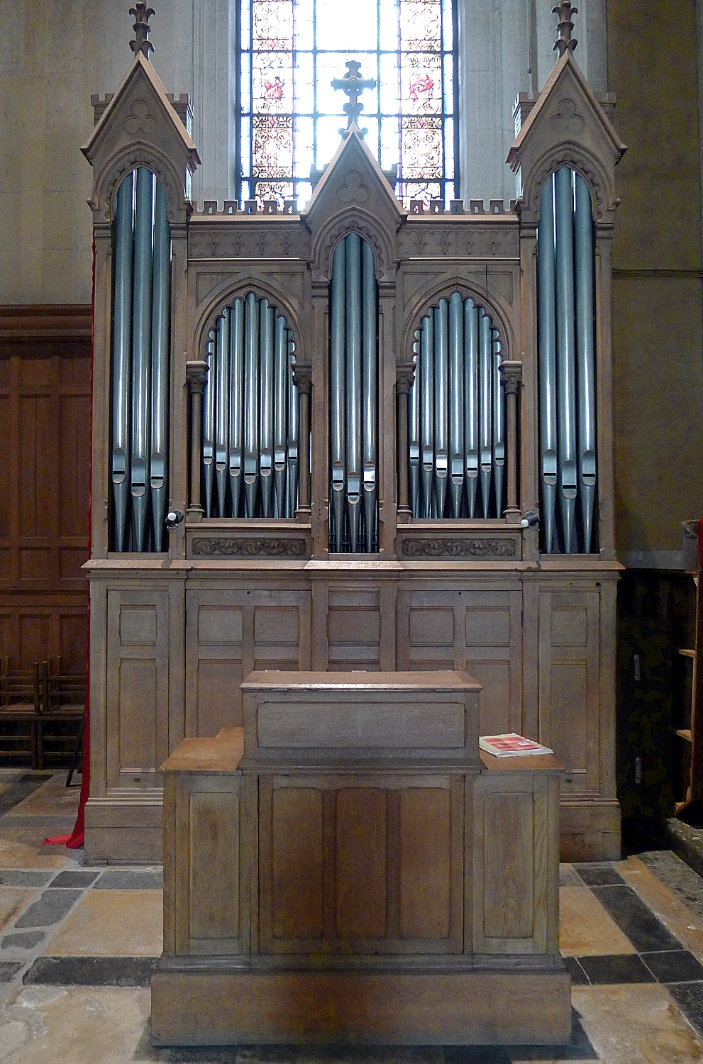 Saint-Denys-du-Saint-Sacrement church - Paris